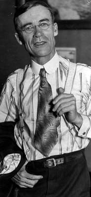 Portrait of Mayor George E. Cryer